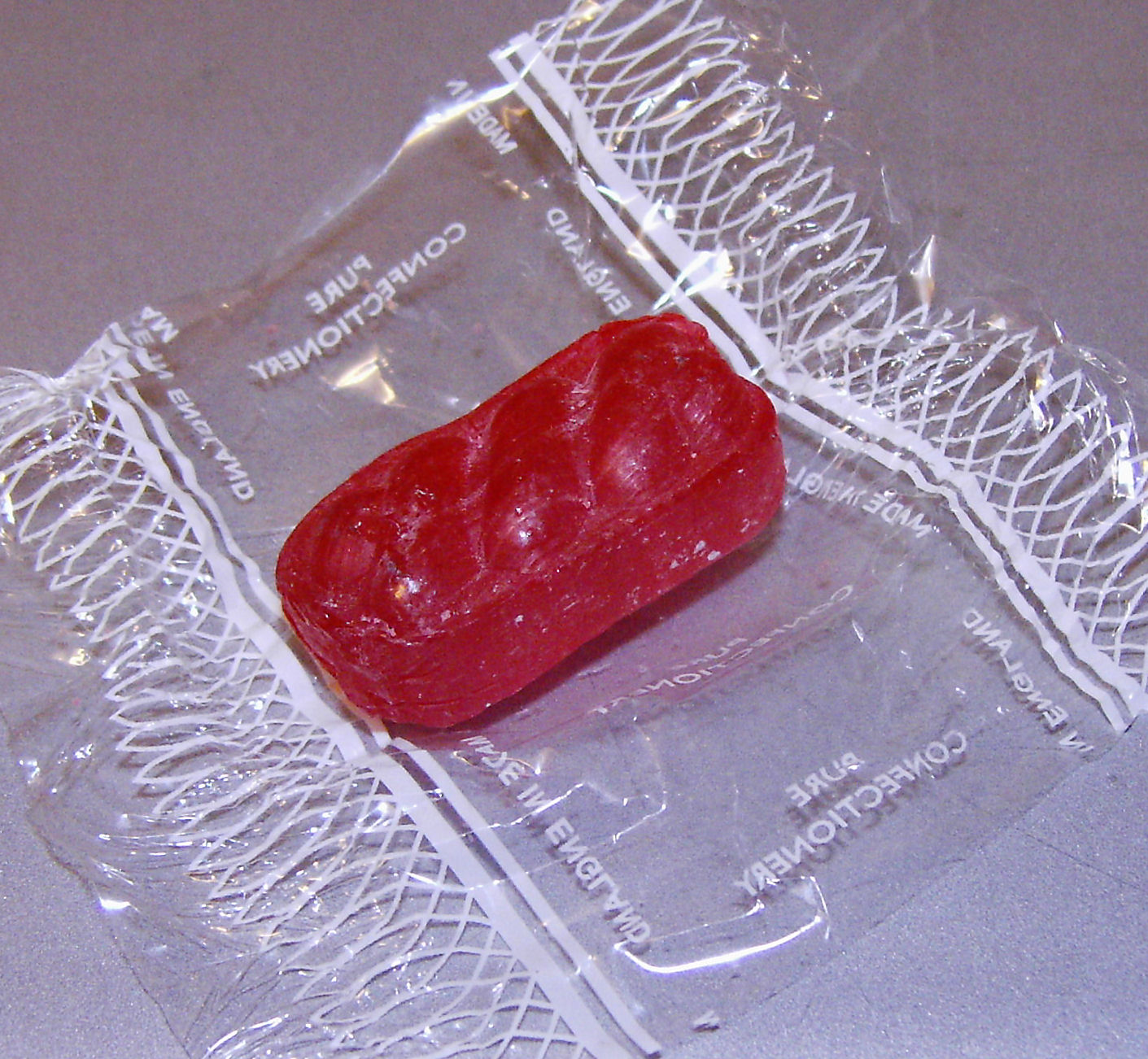 An aniseed twist removed from it wrapper.